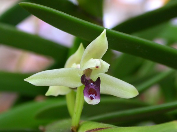 Heterotaxis equitans